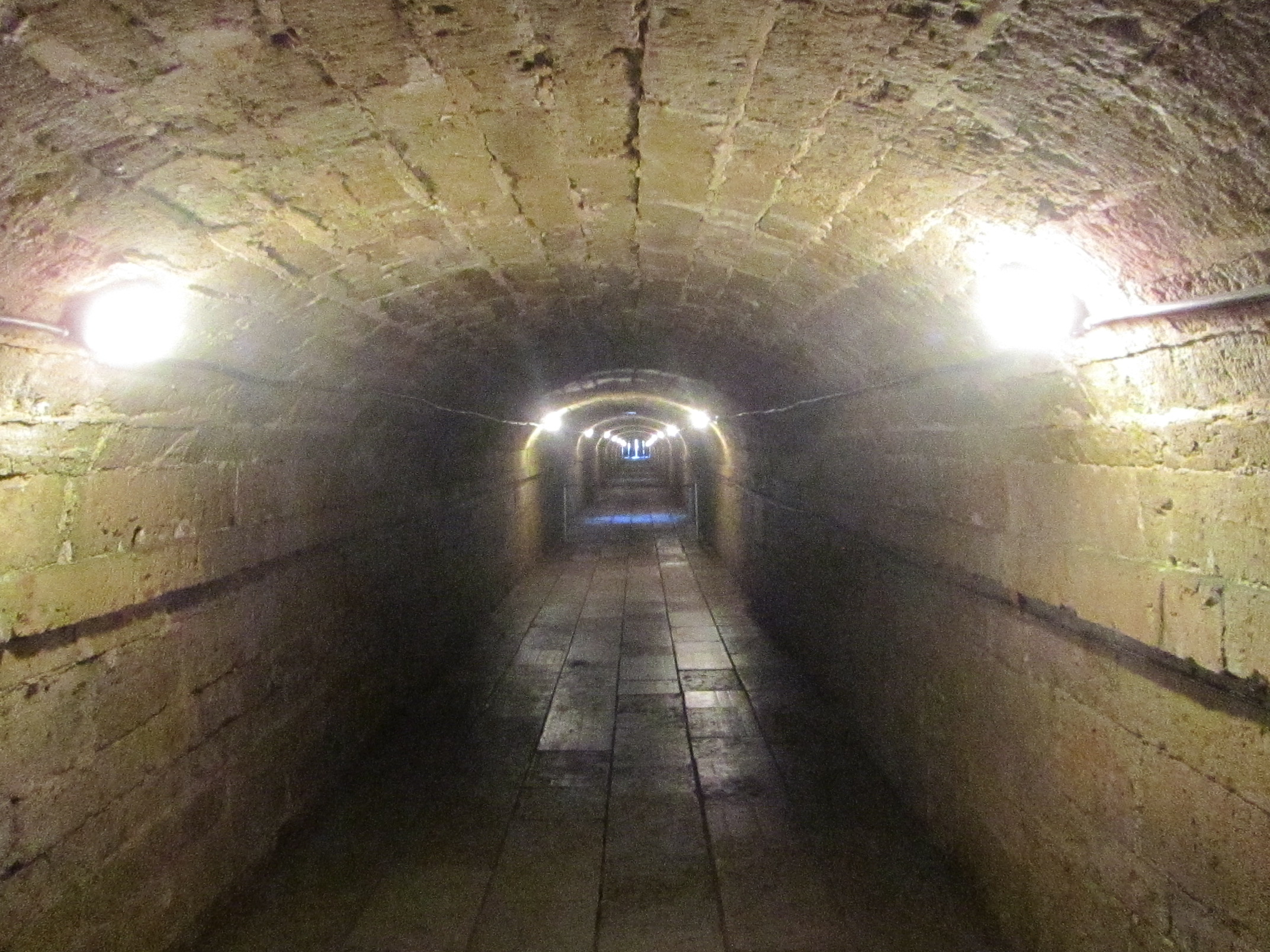 Underground way to a grotto "Echo", Gatchina, 2015